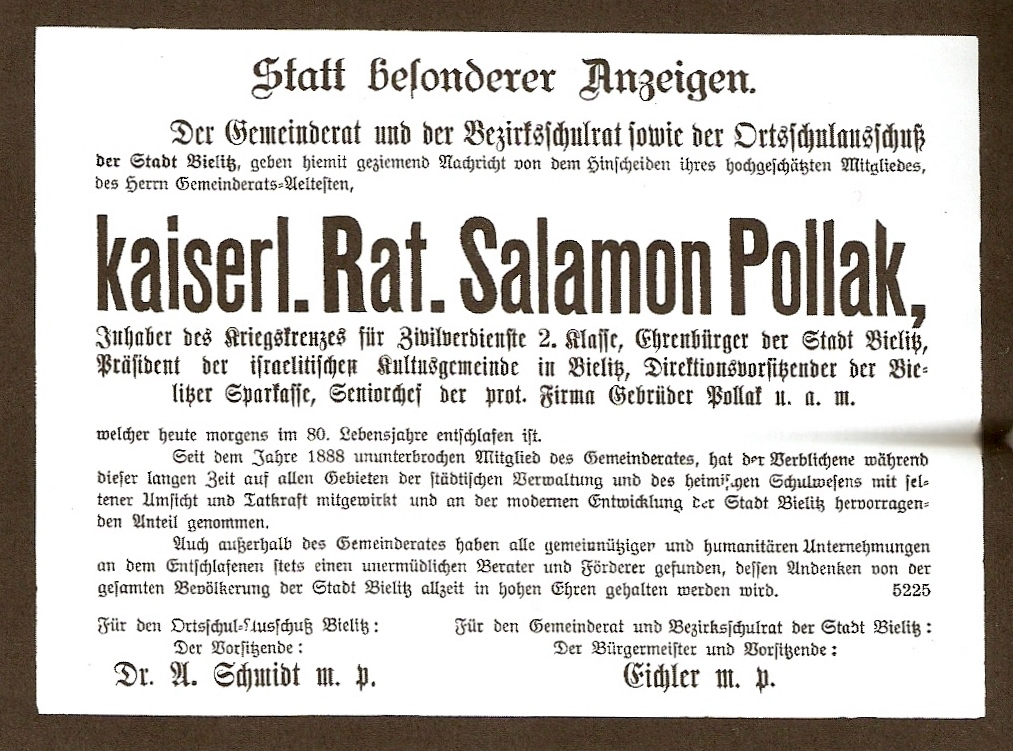 Necrology of Salomon Pollak.